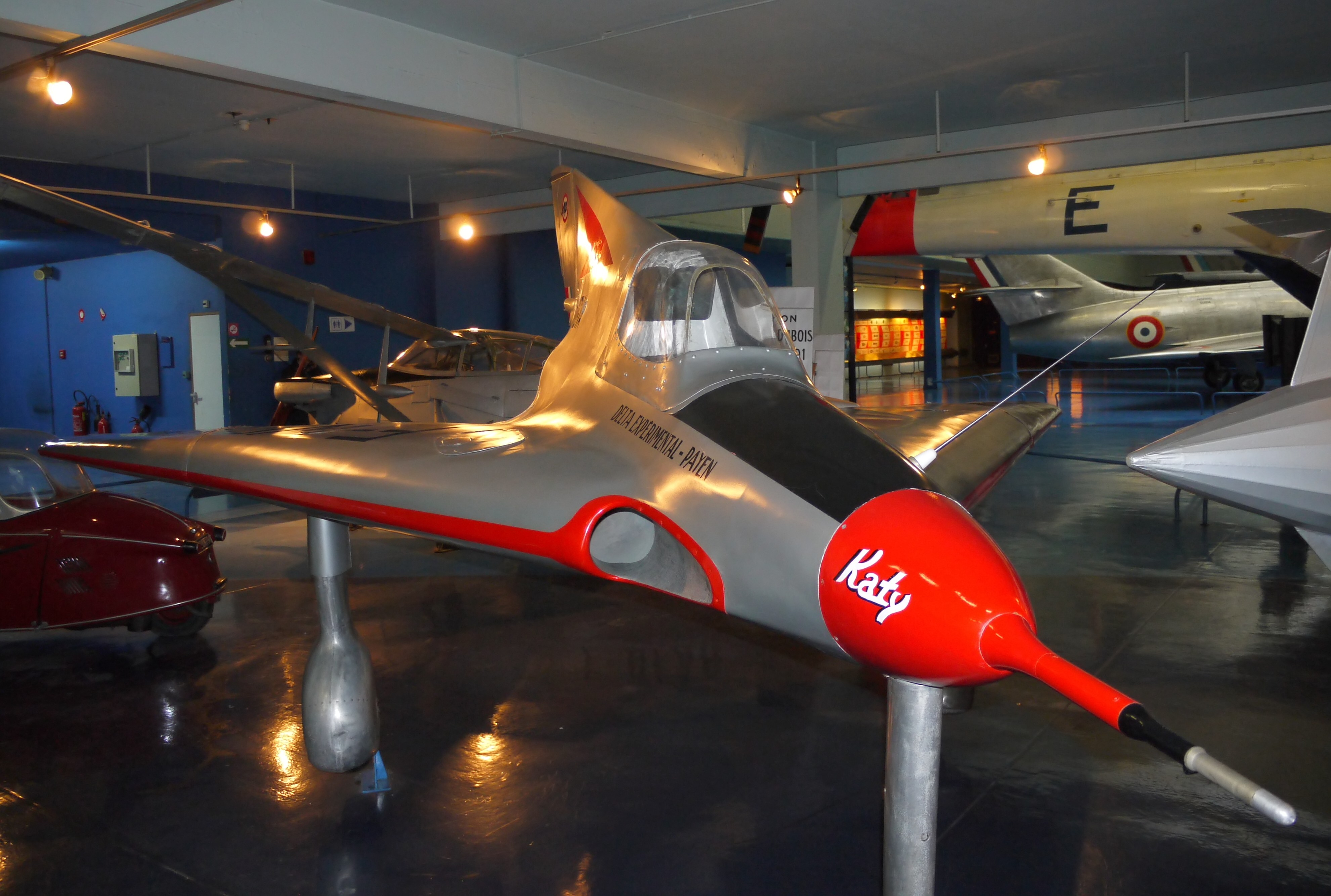 French experimental aircraft Payen PA 49 (1951), Museum of Air and Space Paris, Le Bourget (France)